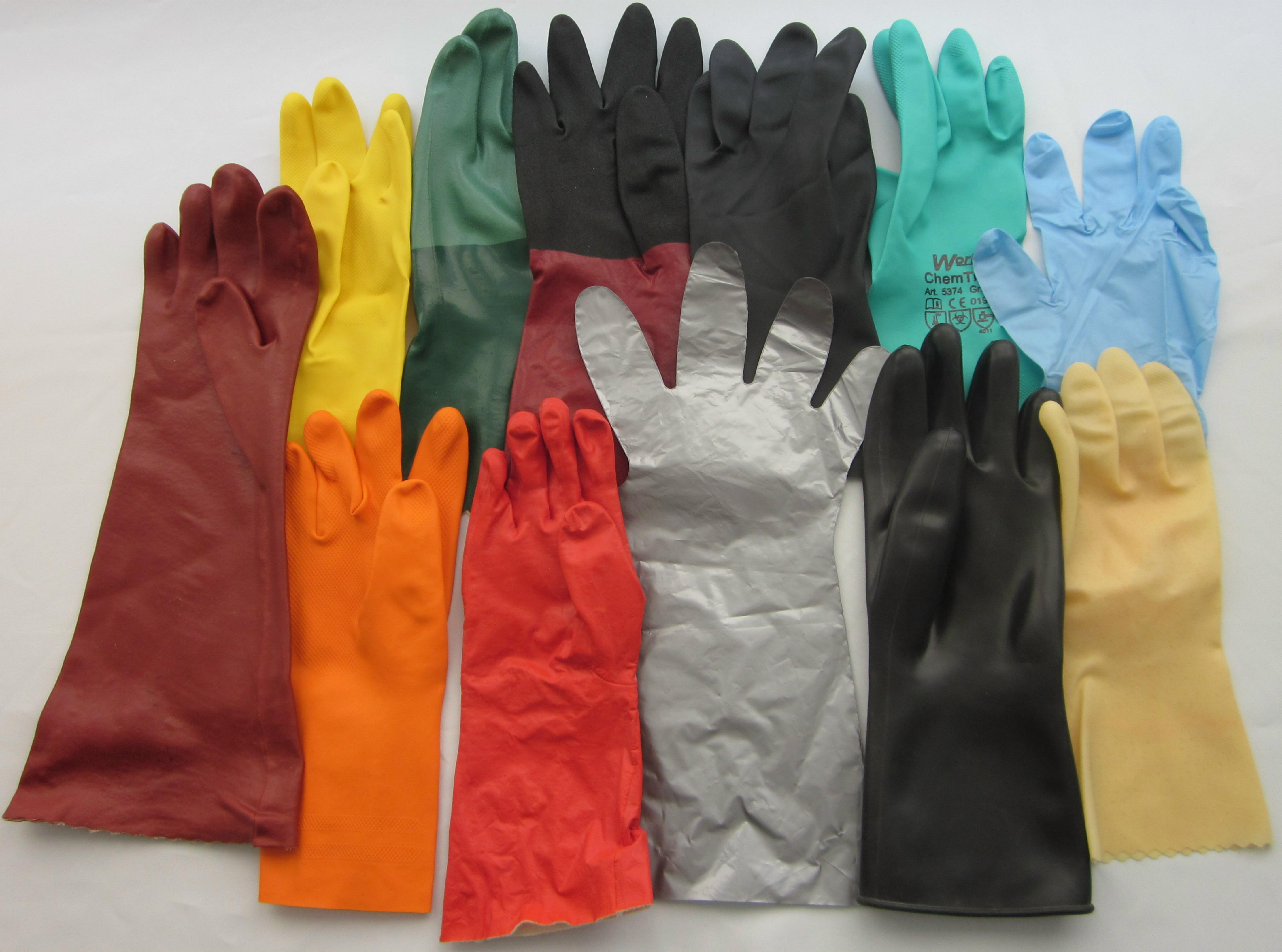 Chemical protection gloves. From the top left (starting with yellow), clockwise: latex, chloroprene, nitrile, neoprene, nitrile, nitrile, latex, butyl, laminate, PVA, latex, PVC